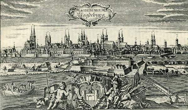 Engraving of Magdeburg in early 18th century